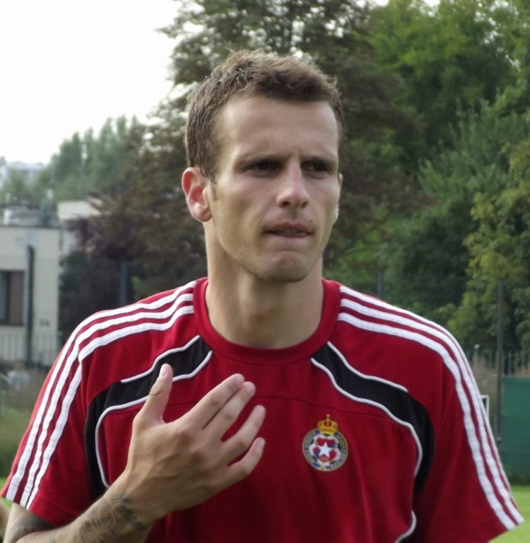 Serbian football player Marko Jovanović. Photo taken during training before Champions League 4-th qualifying round match: Wisła Kraków - APOEL F.C.